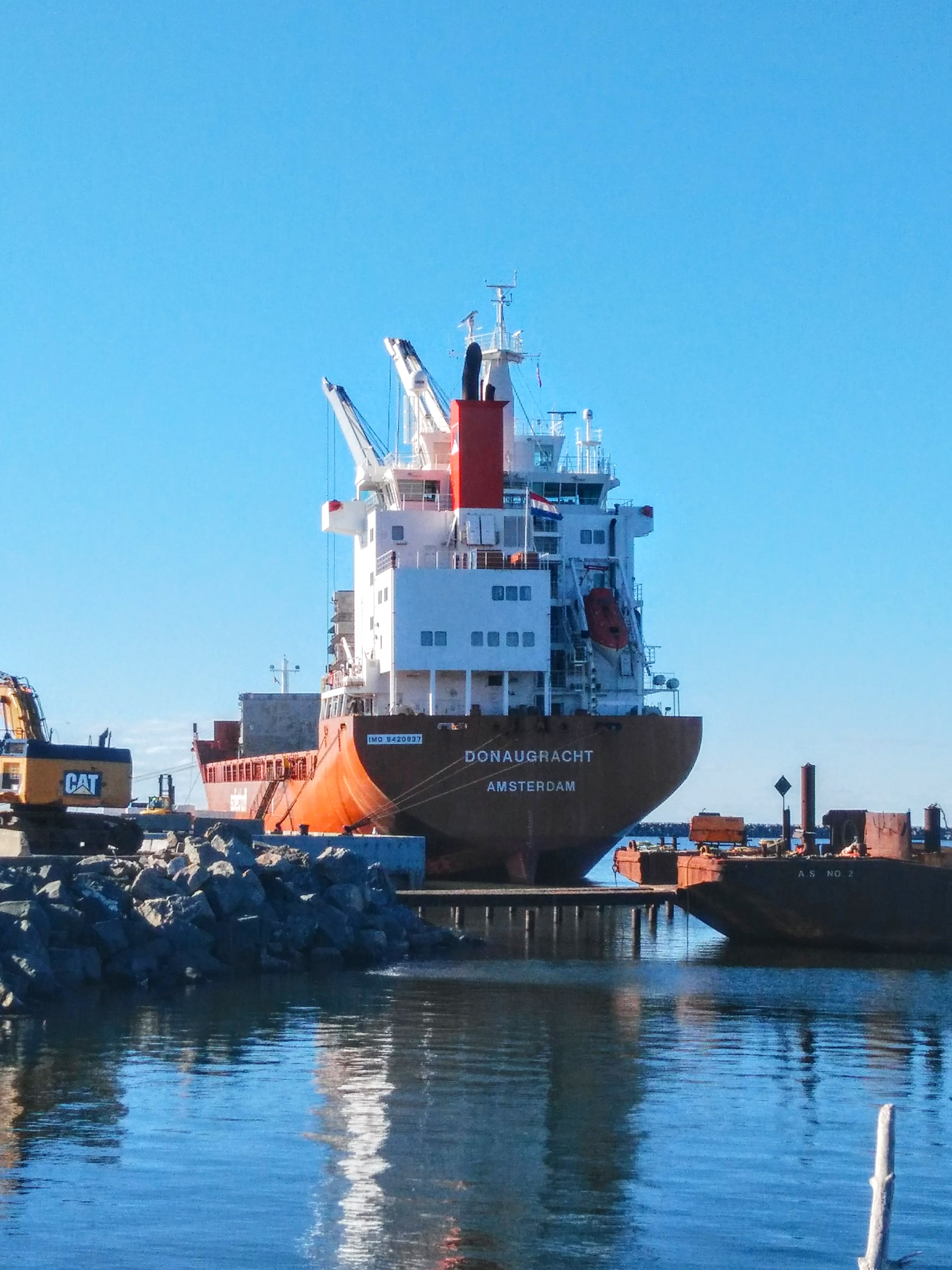 Donaugracht ship from Spliethoff group in Matane harbour